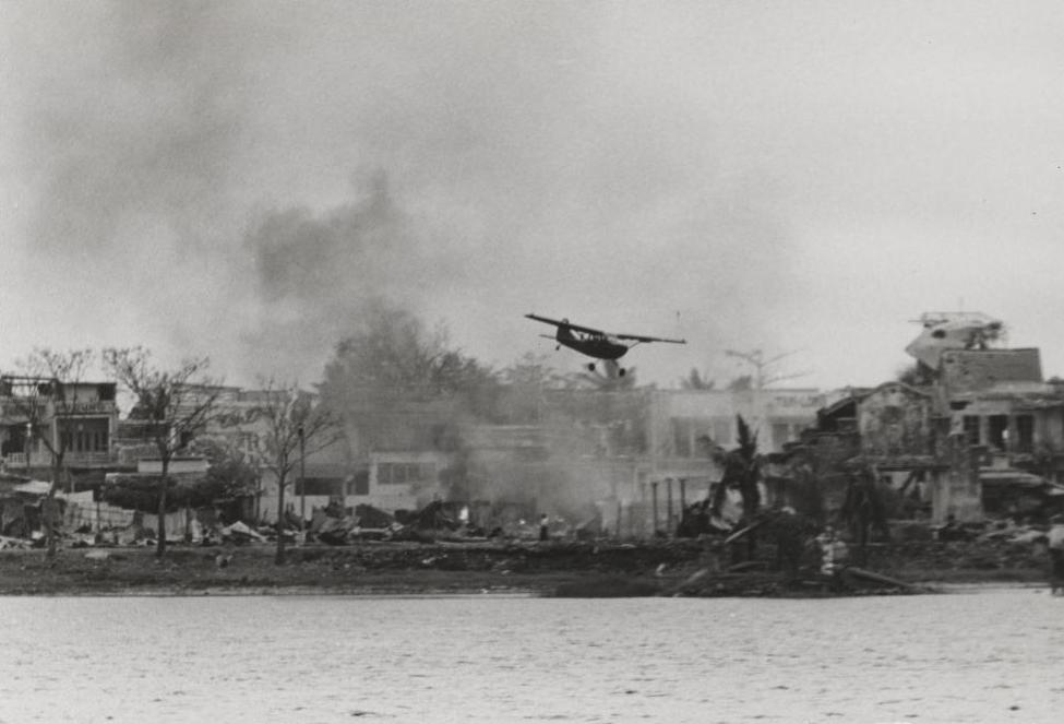 "Close Surveillance: A Marine observation plane makes a low level pass over Hue during recent action in the Imperial City (official USMC photo by Lance Corporal D. M. Messenger)." From the Jonathan Abel Collection (COLL/3611), Marine Corps Archives & Special Collections. OFFICIAL USMC PHOTOGRAPH